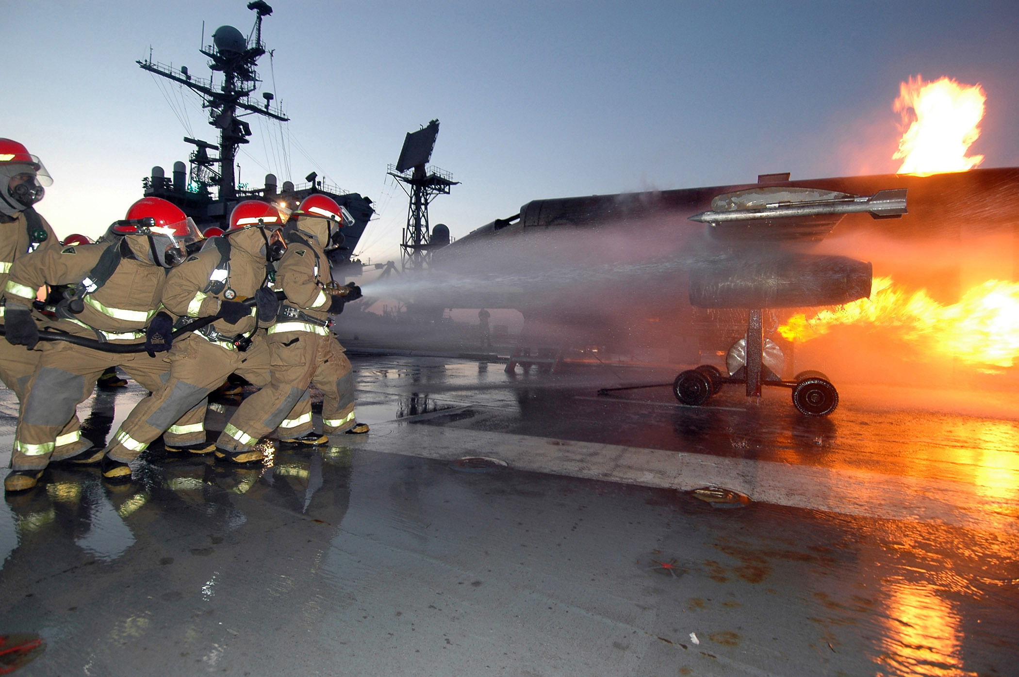 A repair locker hose team aboard USS John F. Kennedy (CV 67) combats a controlled fire on the mobile aircraft firefighting training device May 2, 2006. A crew of three Department of Defense firefighters travels with the simulator to train Kennedy's fire parties. Kennedy is under way conducting crew proficiency training off the coast of Florida.